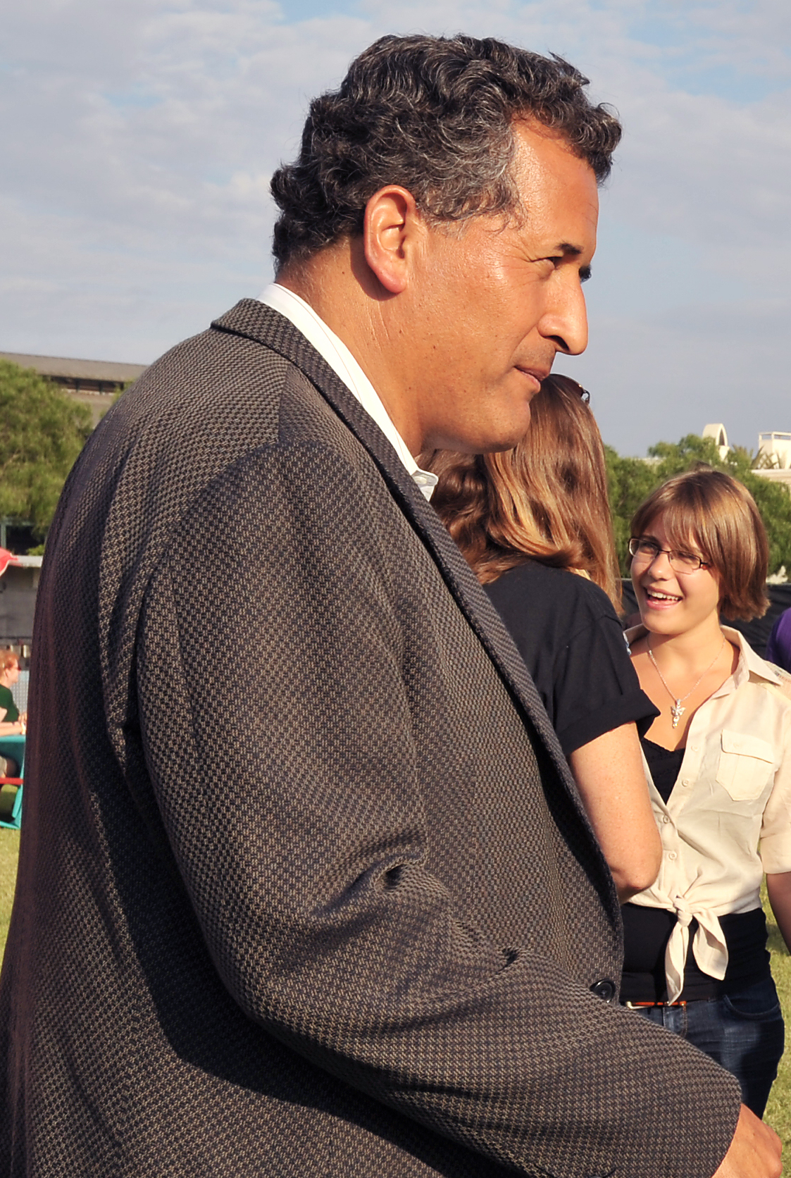 Senator Juan Vargas talks to Grand Prize winner, Gabe G. and his family.